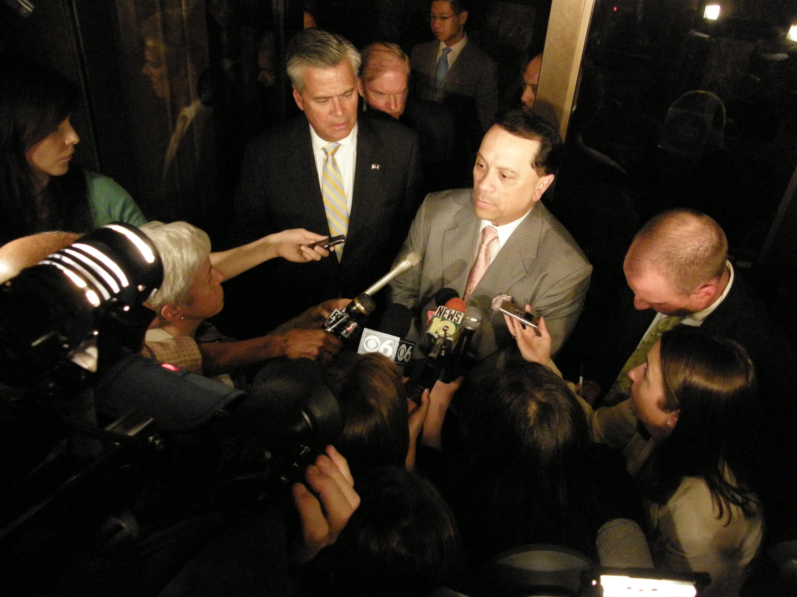 Senators Dean Skelos and Pedro Espada Jr. address the media on the day of the Senate's Special Session as part of the 2009 New York State Senate leadership crisis.